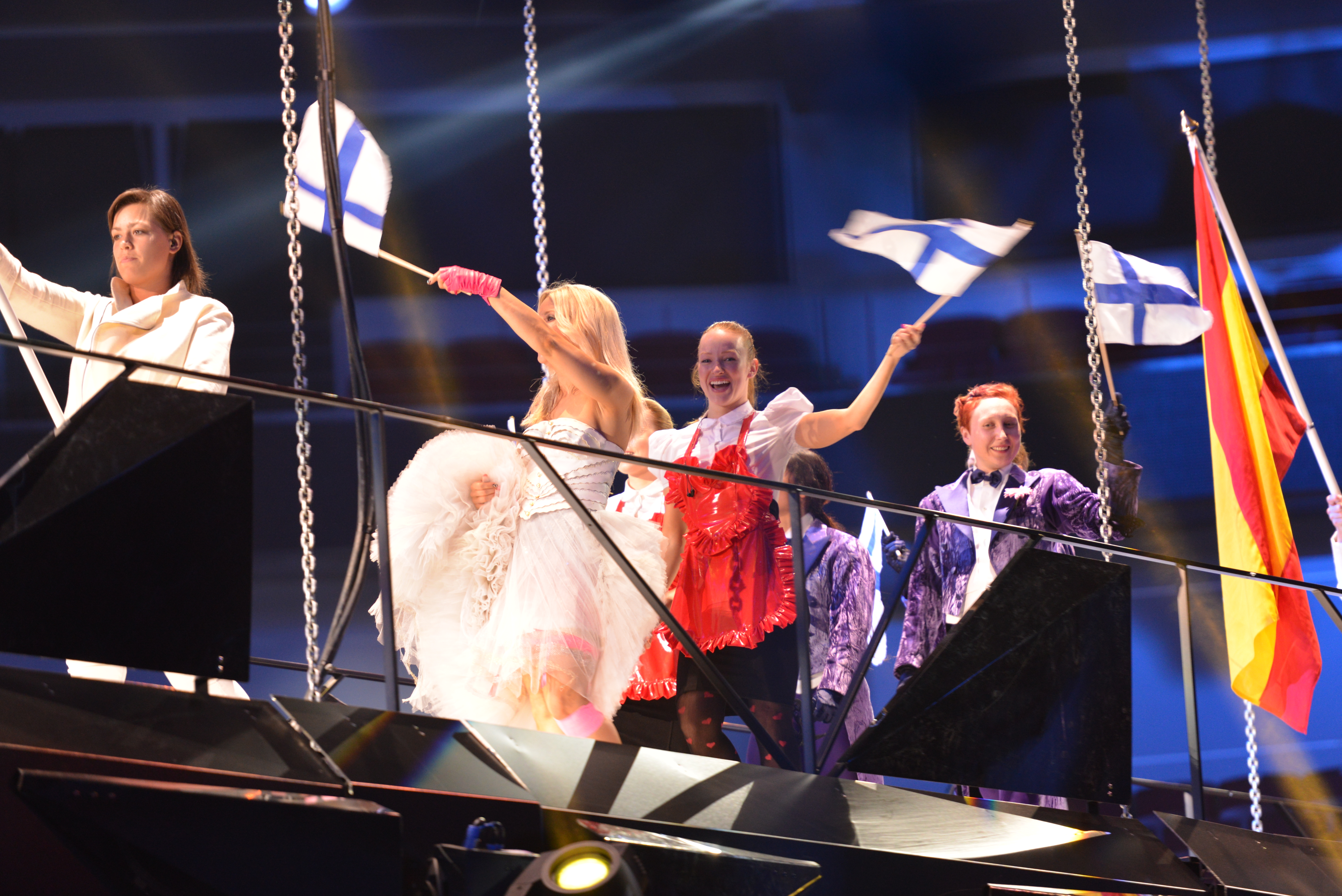 Krista Siegfrids entering the Malmö Arena in the opening act in the first dress rehearsal for the Eurovision Song Contest 2013.